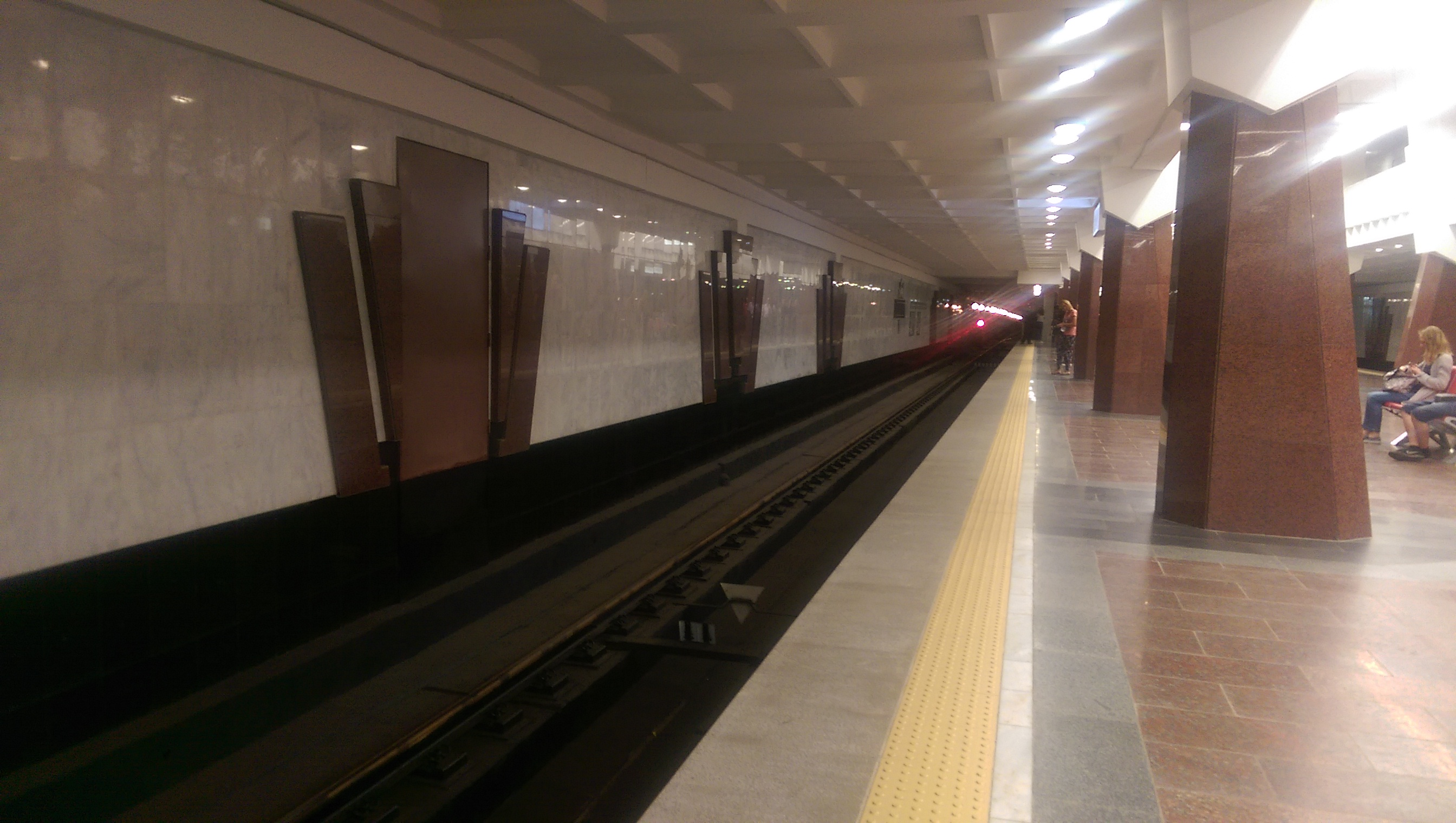 Рeremoga - metro station, Kharkiv